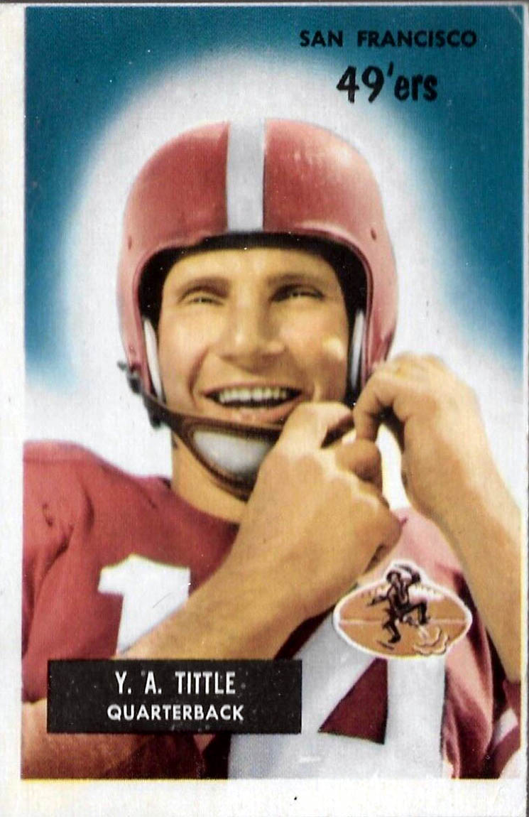 Former National Football League player Y.A. Tittle on a 1955 Bowman card